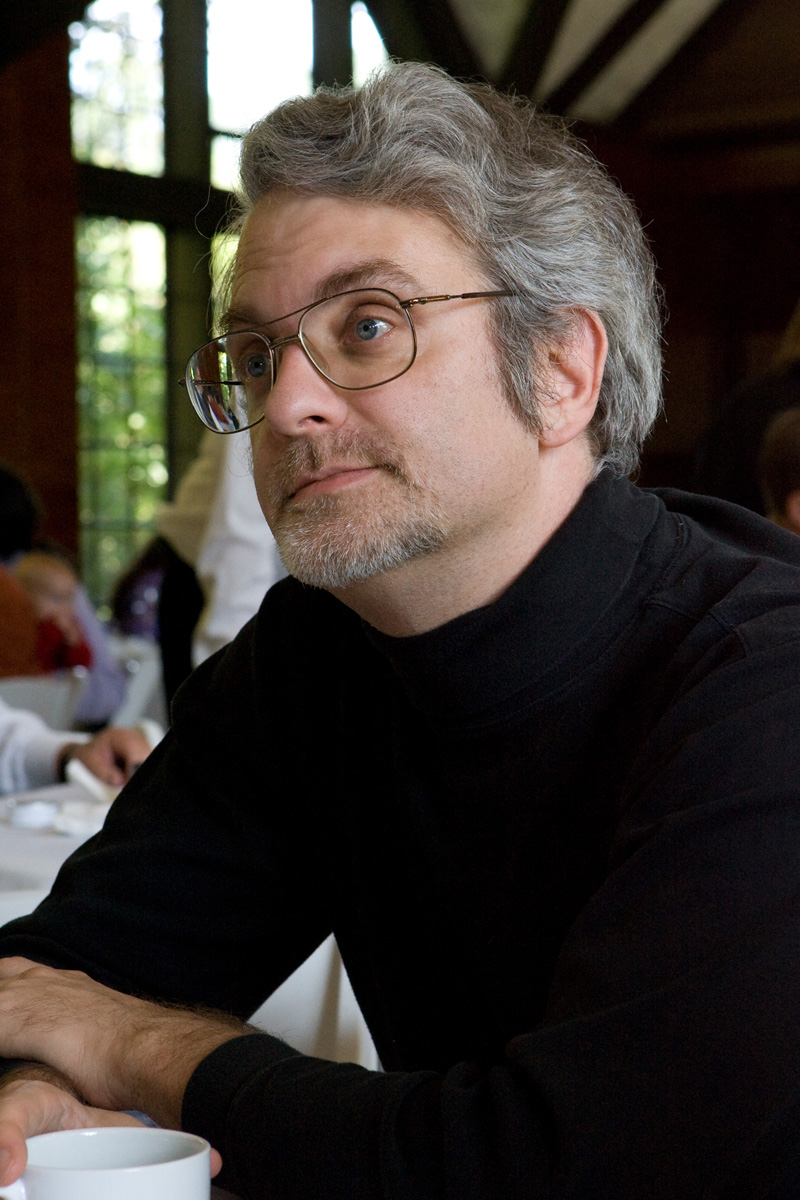 Depicted person: Landon Curt Noll – American mathematician